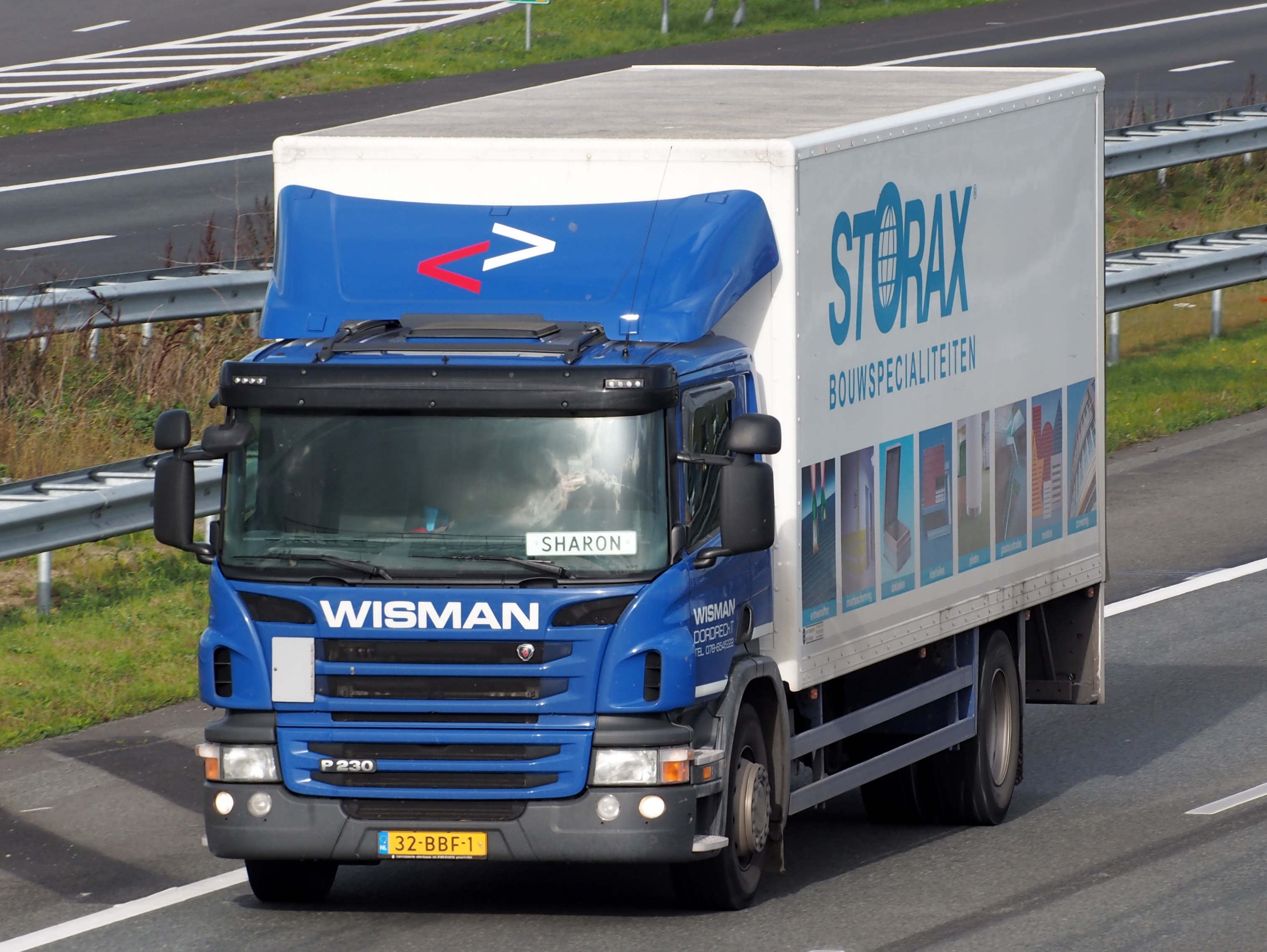 Photographed on the A4 near Hoofddorp, The Netherlands.